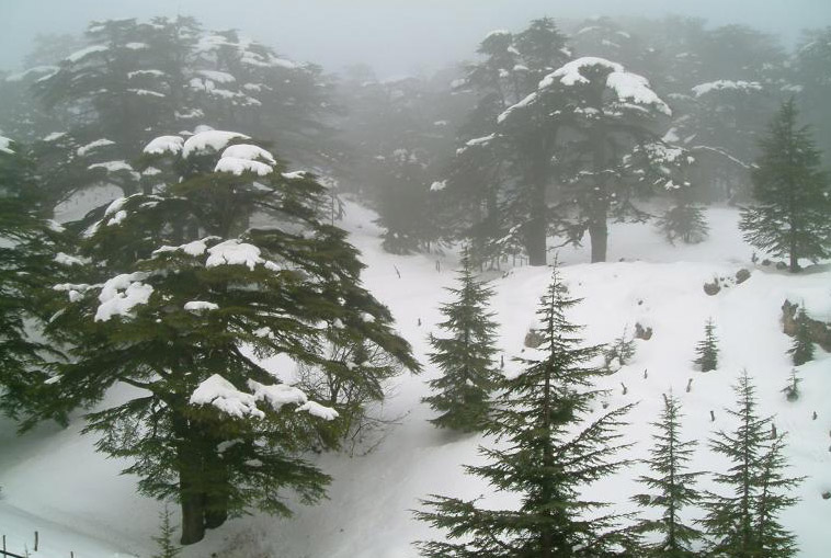 Picture taken in the Cedars Forest in Al Arz.